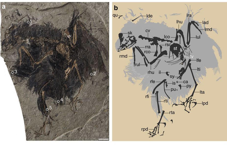 Figure 1 : Cruralispennia multidonta holotype (IVPP V21711). (a) Photograph; (b) line drawing. ca, caudal vertebra; cv, cervical vertebra; il, ilium; is, ischium; lad, left alular digit; lco, left coracoid; lde, left dentary; lfe, left femur; lhu, left humerus; lmd, left major digit; lpd; left pedal digits; lra, left radius; lta, left tarsometatarsus; lti, left tibiotarsus; lul, left ulna; pu, pubis; py, pygostyle; qu, quadrate; rco, right coracoid; rfe, right femur; rhu, right humerus; rmd, right major digit; rpd, right pedal digits; rra, right radius; rsc, right scapula; rta, right tarsometatarsus; rti, right tibiotarsus; rul, right ulna; sk, skull; st, sternum; sy, synsacrum; tv, thoracic vertebra. The white circles (numbered 1–5) and box indicate the locations of the feather and histological samples, respectively. Scale bar, 10 mm.